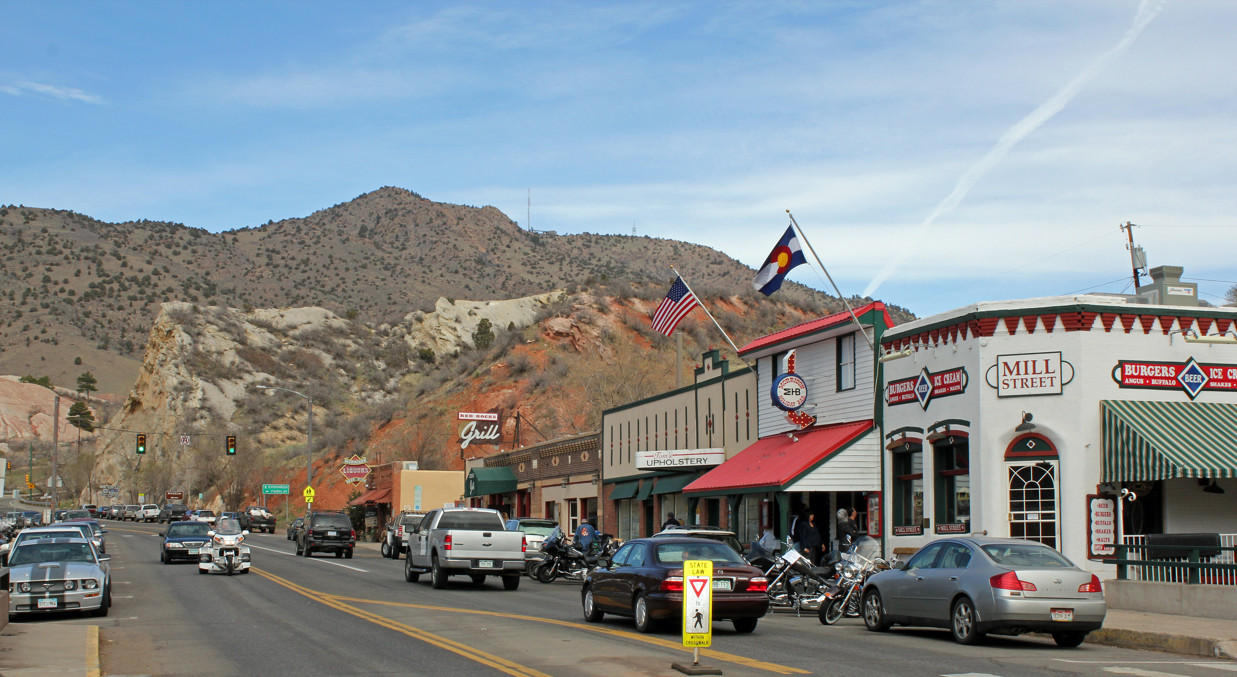 The Morrison Historic District in Morrison, Colorado.